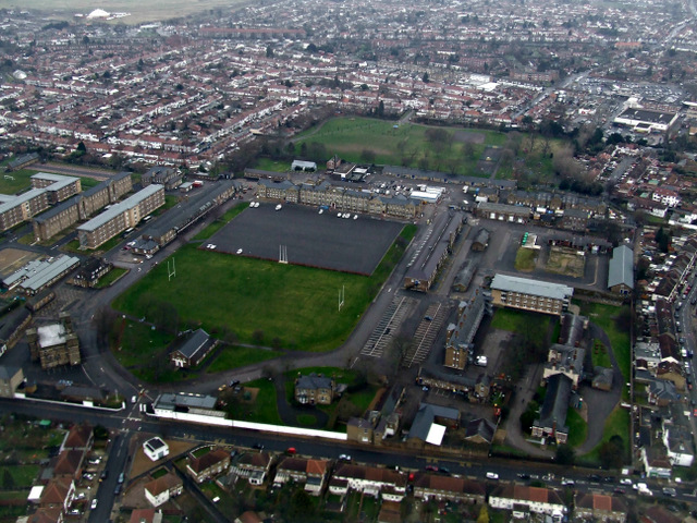 Cavalry Barracks, Hounslow from the air